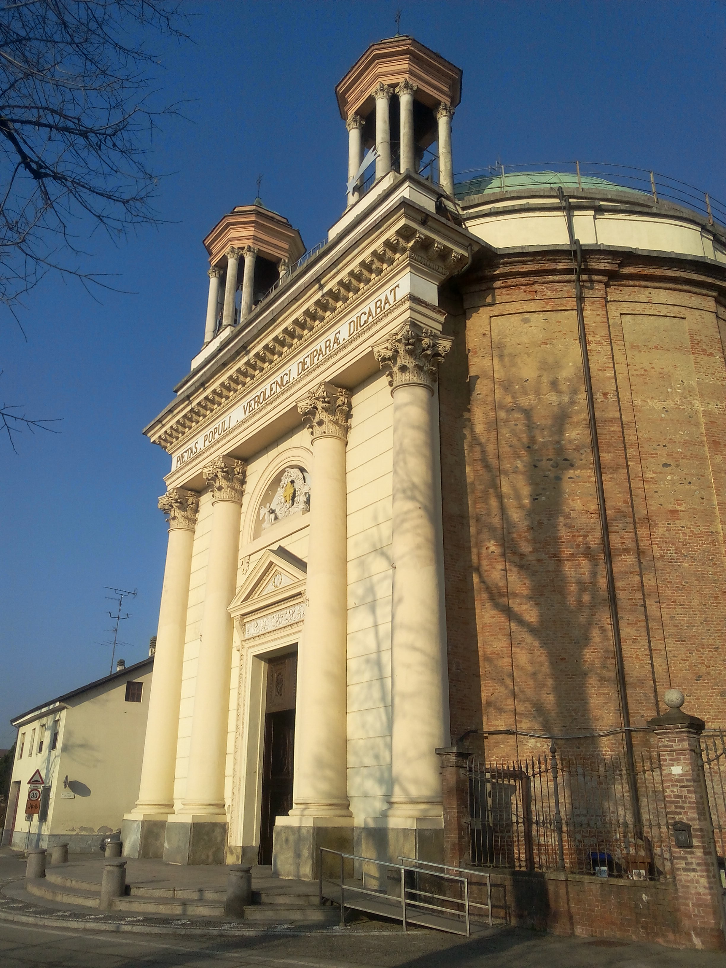 Santuario della Madonnina di Verolengo: la facciata